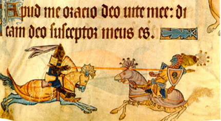 Richard versus Saladin